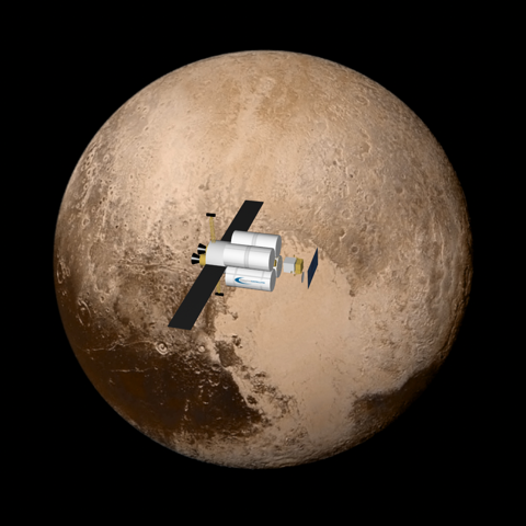 Image of Phase I NIAC concept Fusion-Enabled Pluto Orbiter and Lander